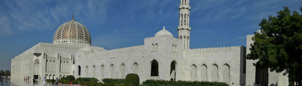 Sultan Qaboos Grand Mosque in Muscat, Oman